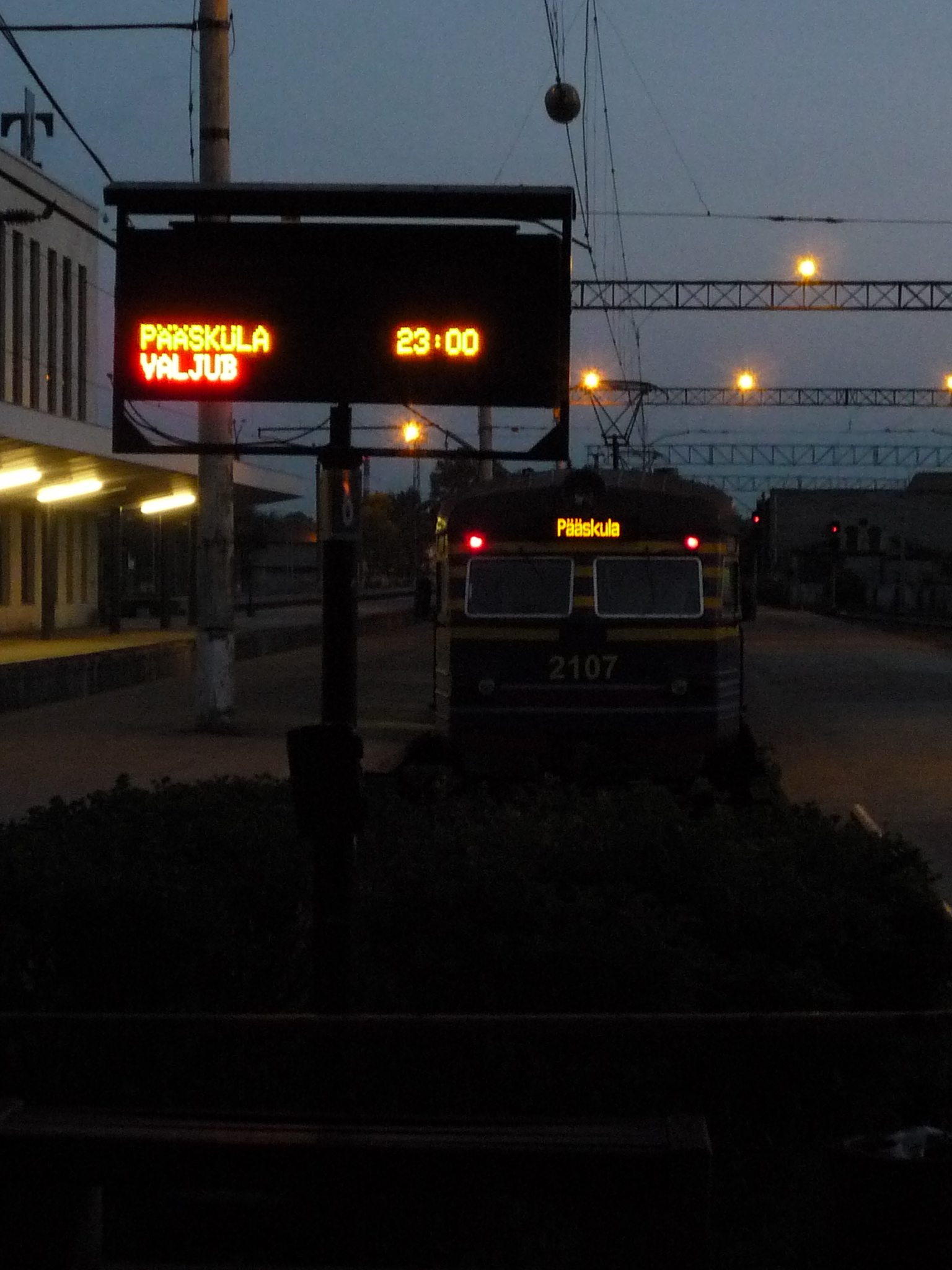 Last train of the day from Tallinn to Pääsküla. Estonia